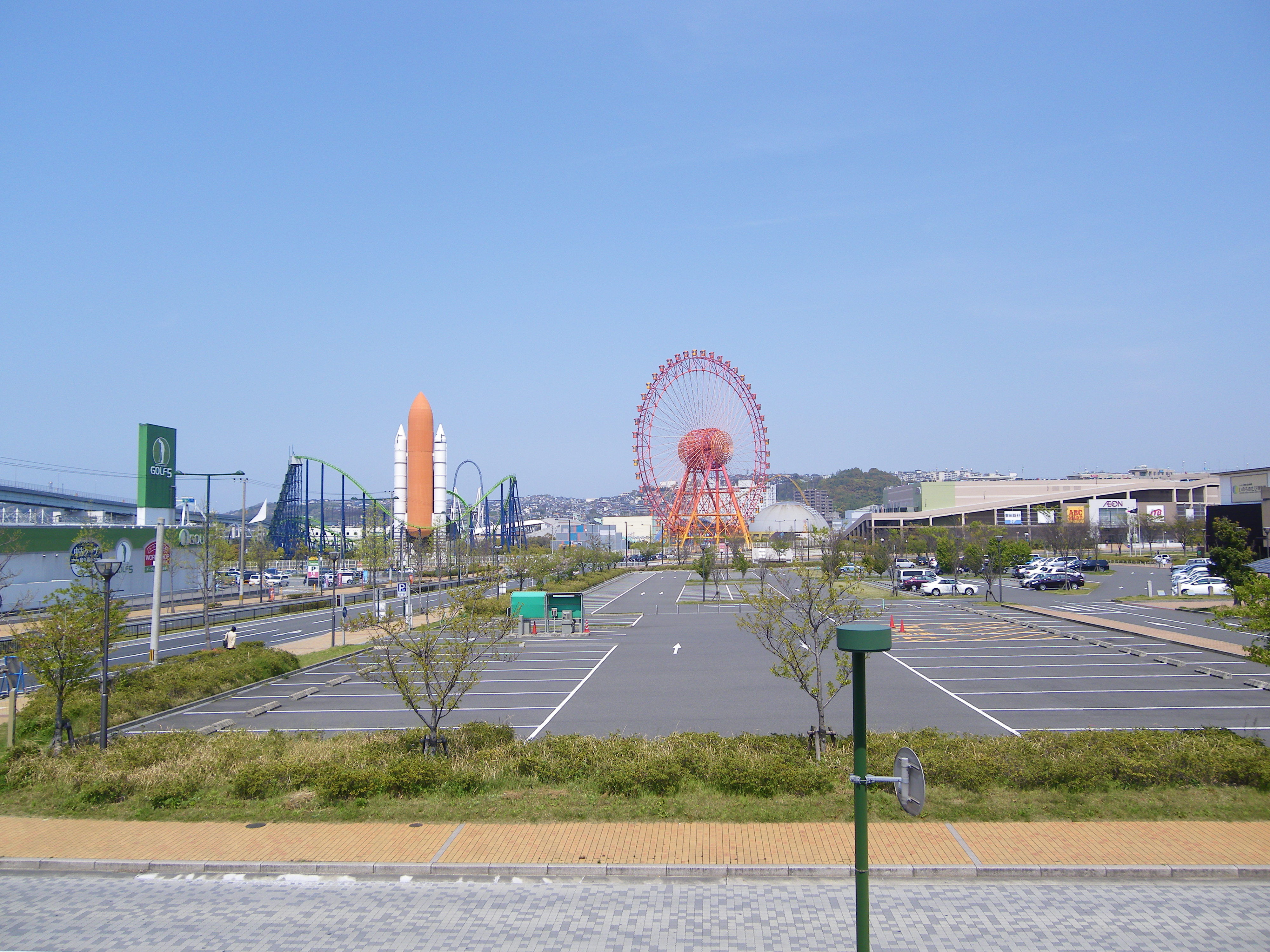 Higashida, Yahata-higashi ward, Kitakyushu city.